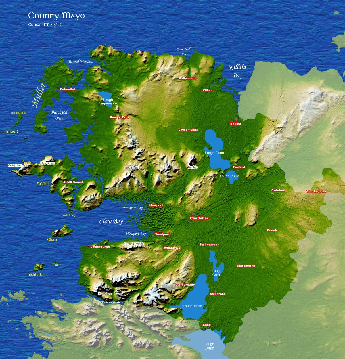 County Mayo map, Ireland This map is a free hand work, so it could lack in precision.